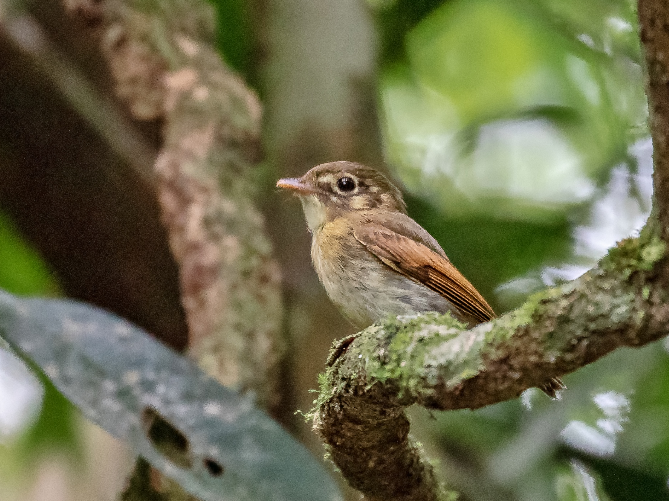 Russet-winged Spadebill; Ubatuba, São Paulo, Brazil